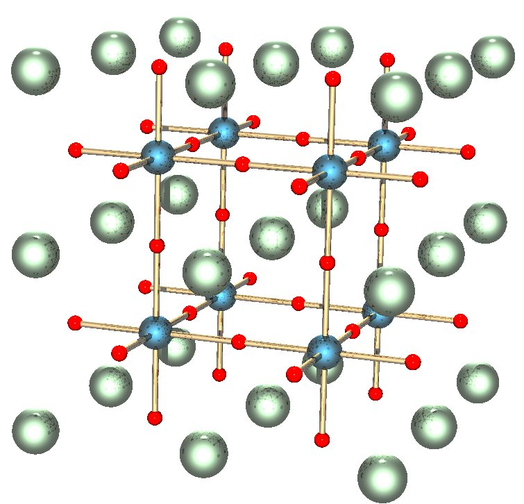 This is a POV ray drawing of a small section of the lattice of an imaginary perovskite. The red atoms are oxygen anions while the the green atom represents the larger cation, and the blue central atom the smaller cation, typically with a higher oxidization state. I created this file by writing a XYZ file using a spreadsheet after reading cotton and wilkinson, this was edited using the text editor of ORTEP. ORTEP was used to write the pov file, then POVray was used to draw it.